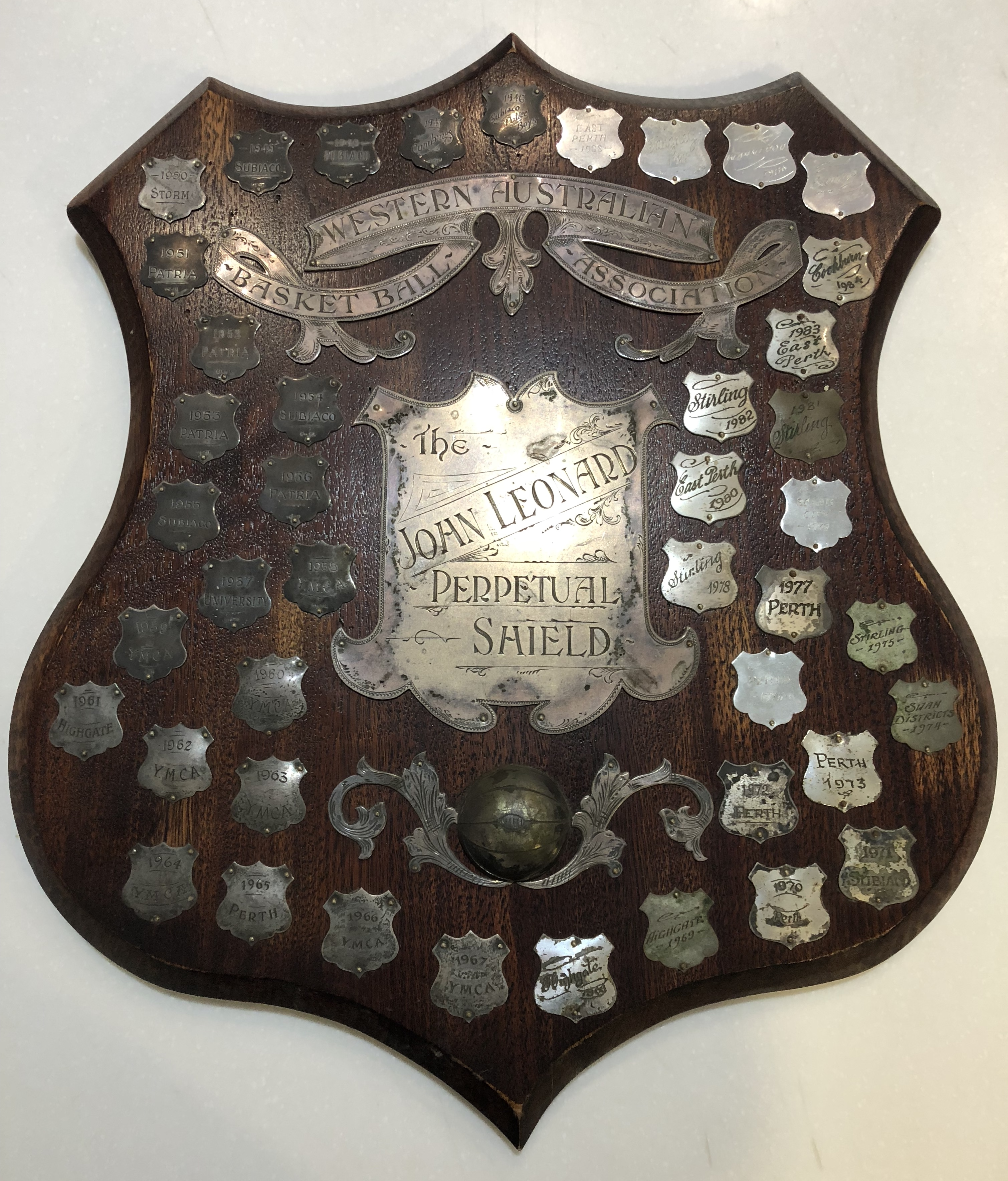 The John Leonard Perpetual Shield, for men’s champions of the Western Australian Basketball Association 1946–1988Going anti-clockwise from the top- 1946: Subiaco Police Boys, 1947: Combines, 1948: Subiaco, 1949: Subiaco, 1950: Storm, 1951: Patria, 1952: Patria, 1953: Patria, 1954: Subiaco, 1955: Subiaco, 1956: Patria, 1957: University, 1958: YMCA, 1959: YMCA, 1960: YMCA, 1961: Highgate, 1962: YMCA, 1963: YMCA, 1964: YMCA, 1965: Perth, 1966: YMCA, 1967: YMCA, 1968: Highgate, 1969: Highgate, 1970: Perth, 1971: Subiaco, 1972: Perth, 1973: Perth, 1974: Swan Districts, 1975: Stirling, 1976: Perth, 1977: Perth, 1978: Stirling, 1979: Scarborough City, 1980: East Perth, 1981: Stirling, 1982: Stirling, 1983: East Perth, 1984: Cockburn, 1985: Swans, 1986: Wanneroo, 1987: Tangney, 1988: East Perth